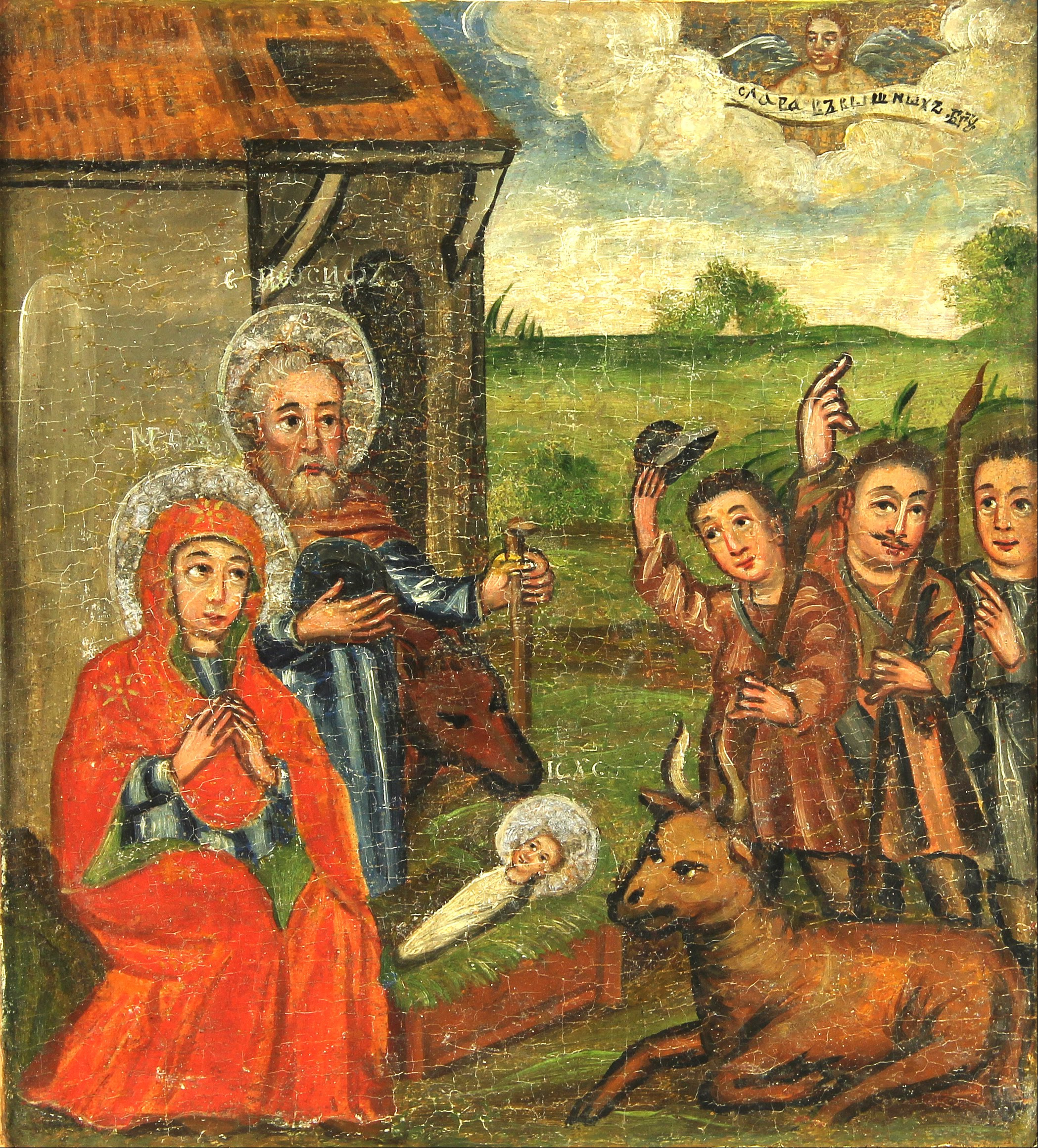 A Ukrainian religious painting, from an iconostasis, showing the Adoration of the Shepherds. Tempera on wood.